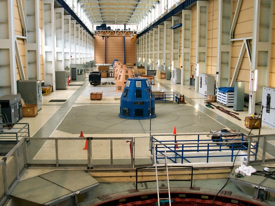 Roxburgh dam machine hall, generator 1 is undergoing refurbishment.